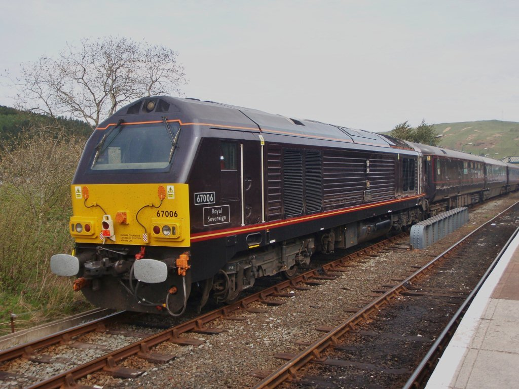 Class 67 General Motors 67006 Royal Sovereign. Royal train resting at Machynlleth Station while the Queen visits the town